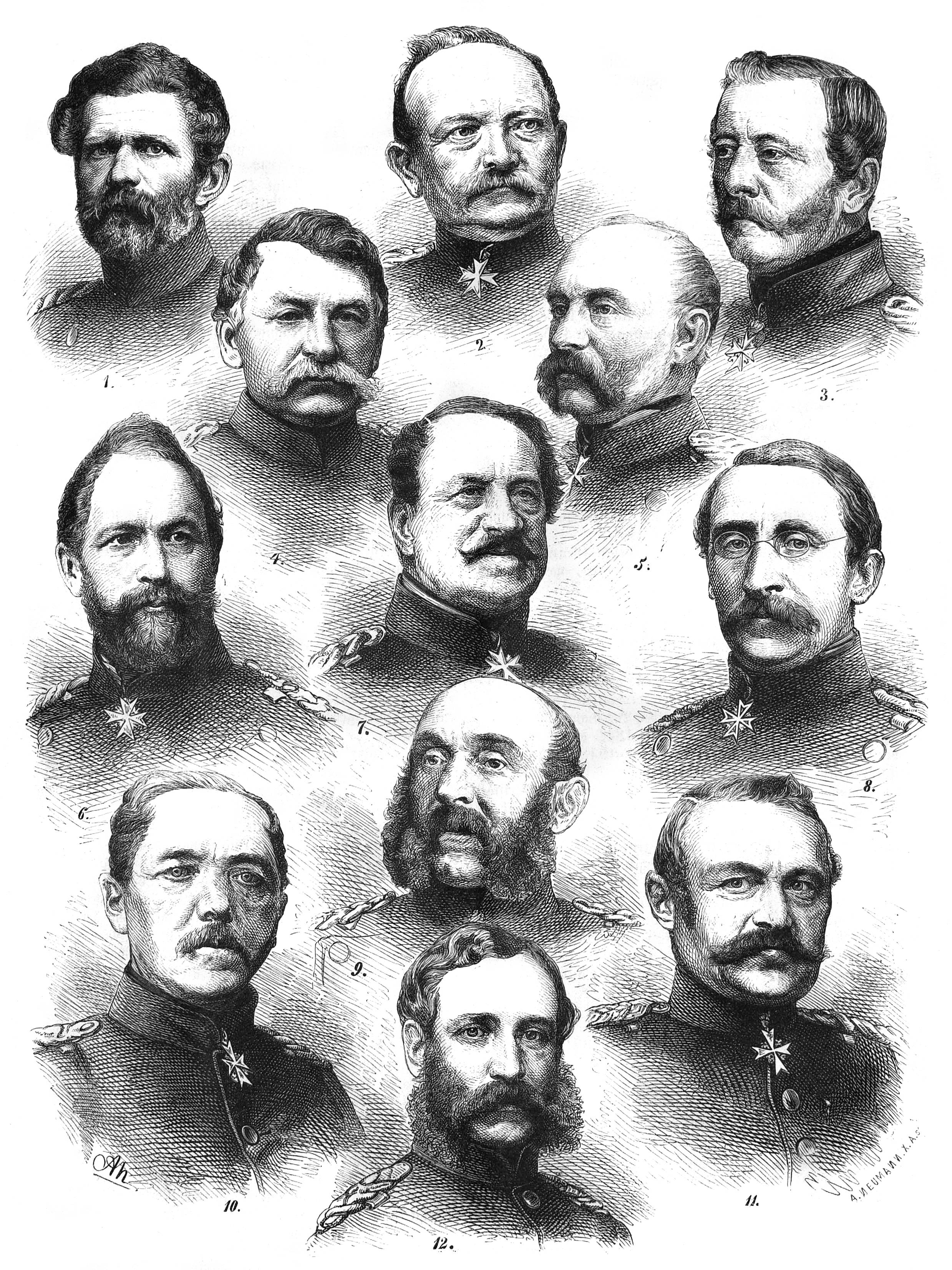 caption: "Die Befehlshaber der zwölf norddeutschen Armeecorps. Armeecorps 1: Edwin Freiherr v. Manteuffel. – A.-C. 2: Eduard Friedrich v. Fransecky. – A.-C. 3: Constantin v. Alvensleben. – A.-C. 4: Gustav v. Alvensleben. – A.-C. 5: Hugo Ewald v. Kirchbach. – A.-C. 6: Wilhelm v. Tümpling. – A.-C. 7: Heinrich Adolph v. Zastrow. – A.-C. 8: August v. Goeben. – A.-C. 9: Gustav v. Mastein. – A.-C. 10: Constantin Bernhard v. Voigts-Rhetz. – A.-C. 11: Julius v. Bose. – A.-C. 12: Kronprinz Albert von Sachsen."